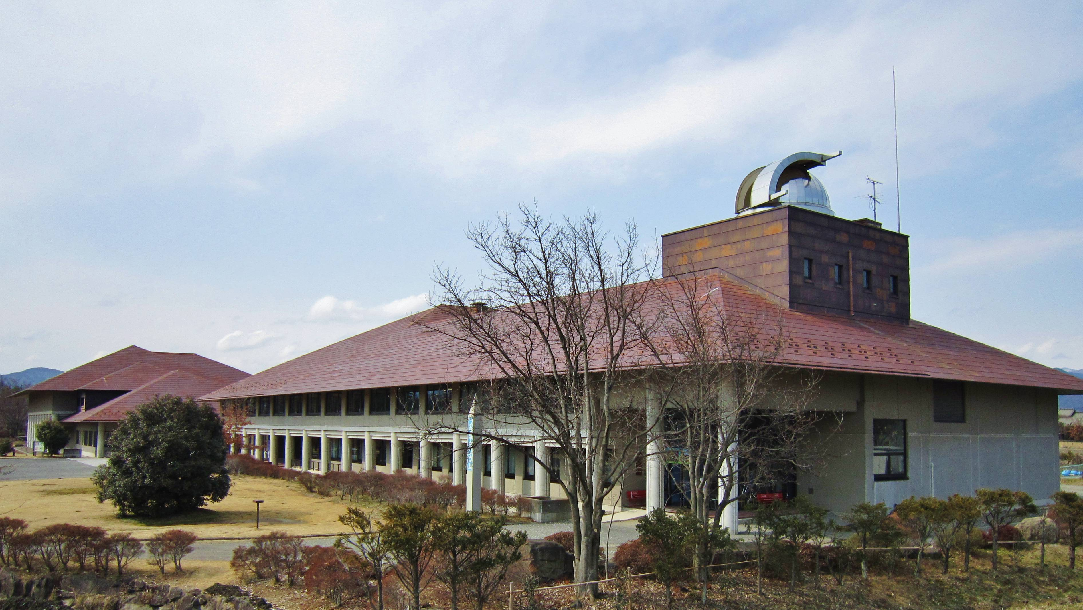 Nagano City Museum.